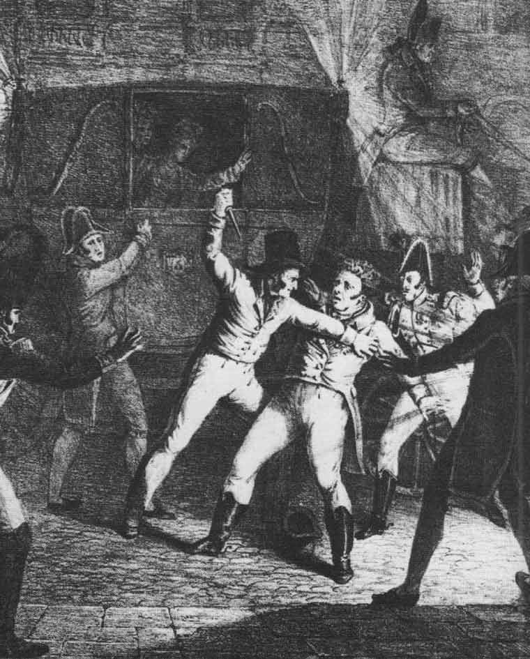 The assasination of Charles Ferdinand, Duke of Berry by Pierre Louis Louvel